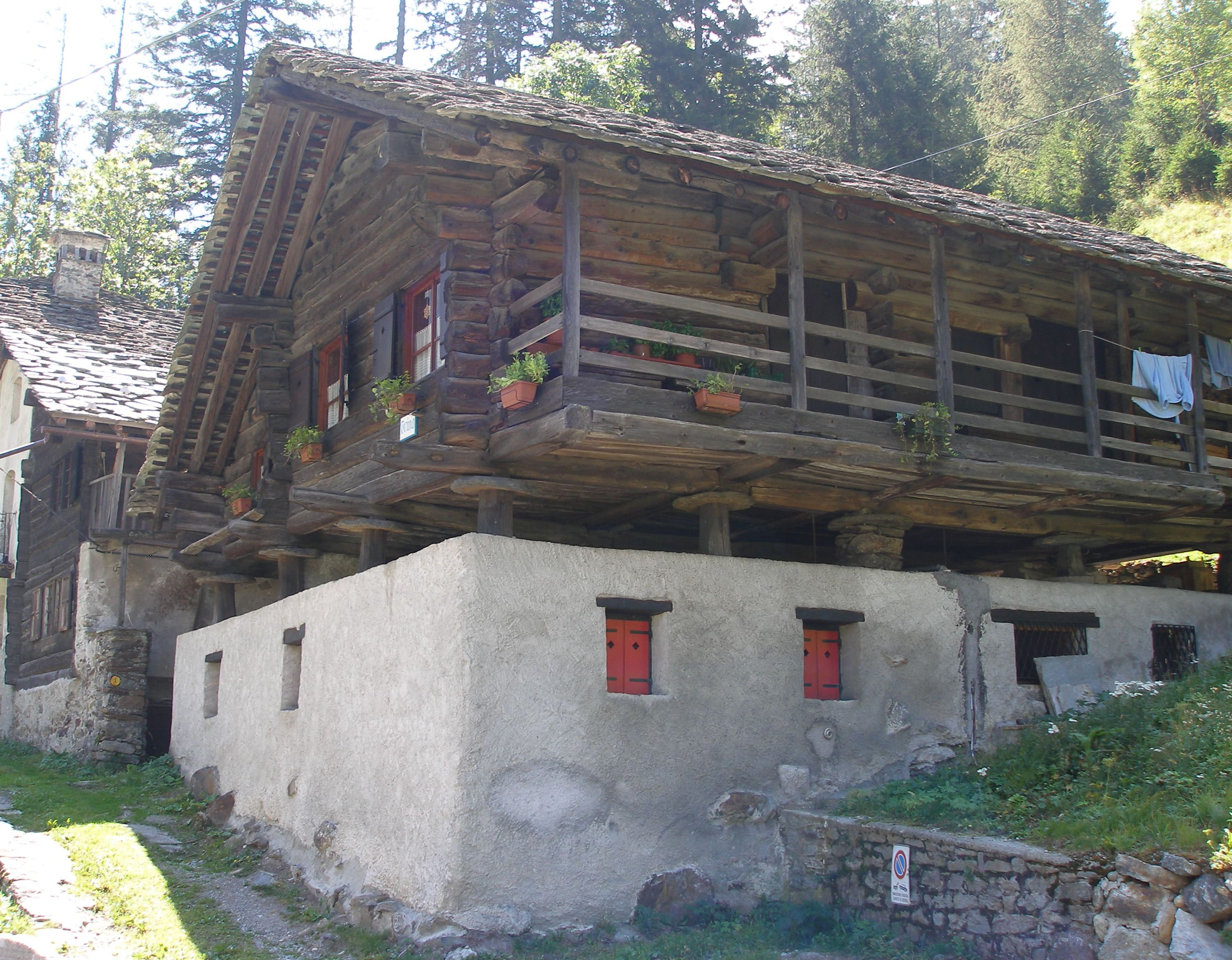 Walser house in Lys valley - Aosta valley -Italy